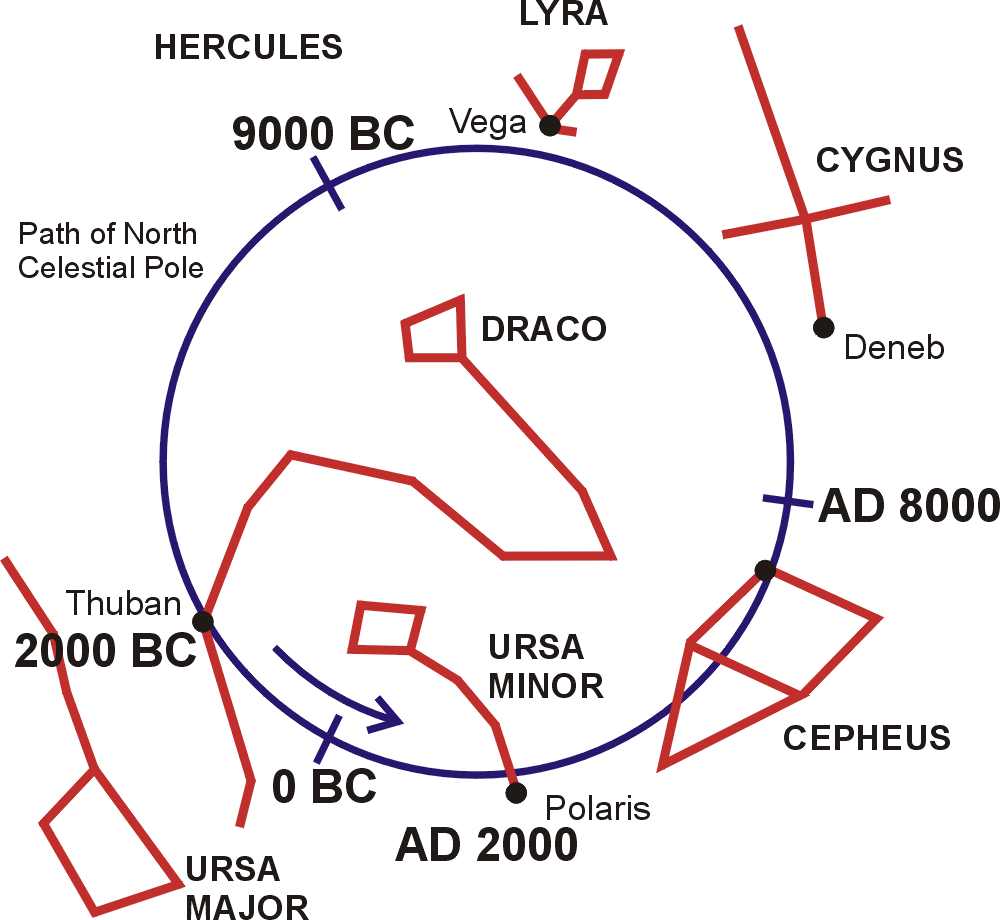 Path of North Celestial Pole